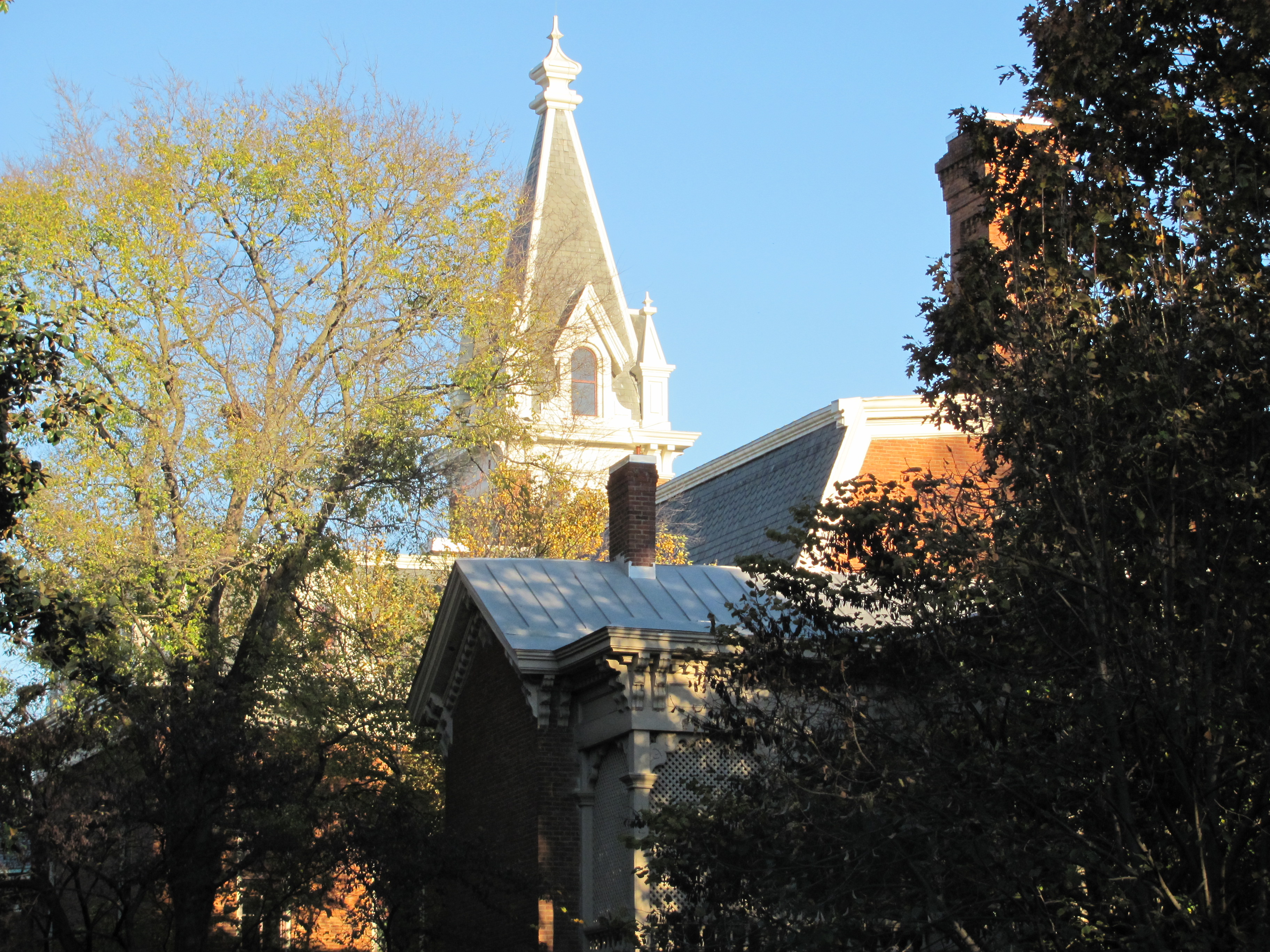 Benson Hall